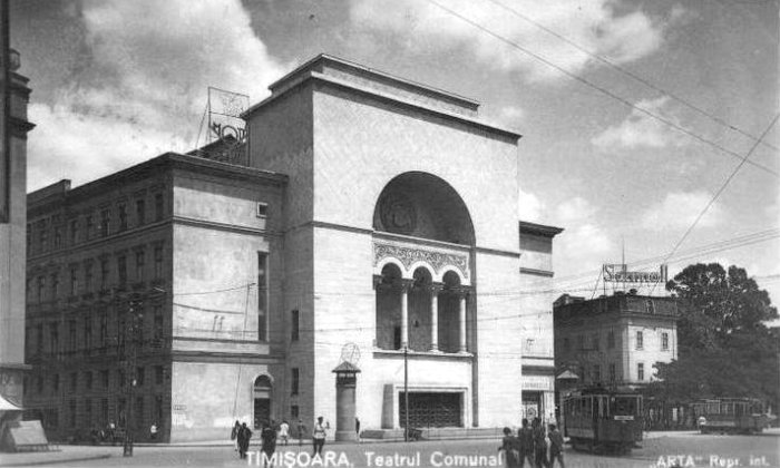 The Palace of Culture, 1940, Timișoara, Romania, built 1875, facade 1936.